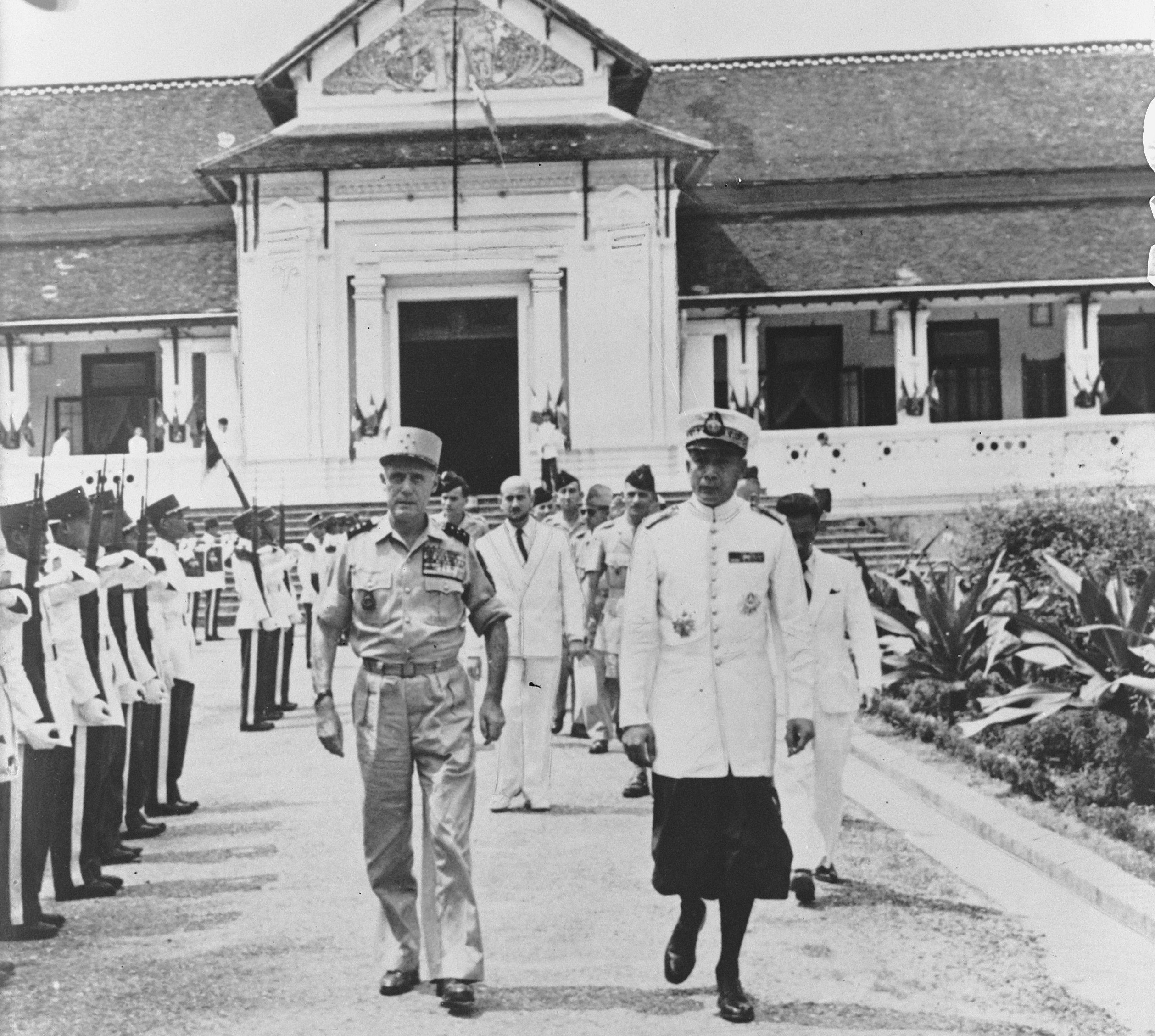 Battle in Laos. French General Salan and Prince Savang in Luang Prabang, Lao capital, 4 May 1953